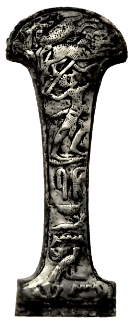 Hilt of the so-called Nehemen's dagger, a gift from pharaoh Nebkhepeshre (Apophis; his cartouche is on the other side) to his servant Nehemen. Gilded bronze, found in Saqqara, near Teti's pyramid, inside the coffin of a man called Abed. Cairo JE 32735 (CG 52768; now exibited in the Luxor Museum).